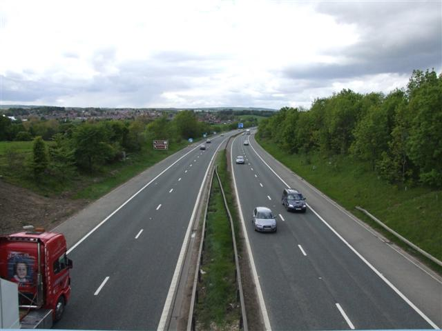 A1(M) motorway, approaching the Chester-le-Street interchange